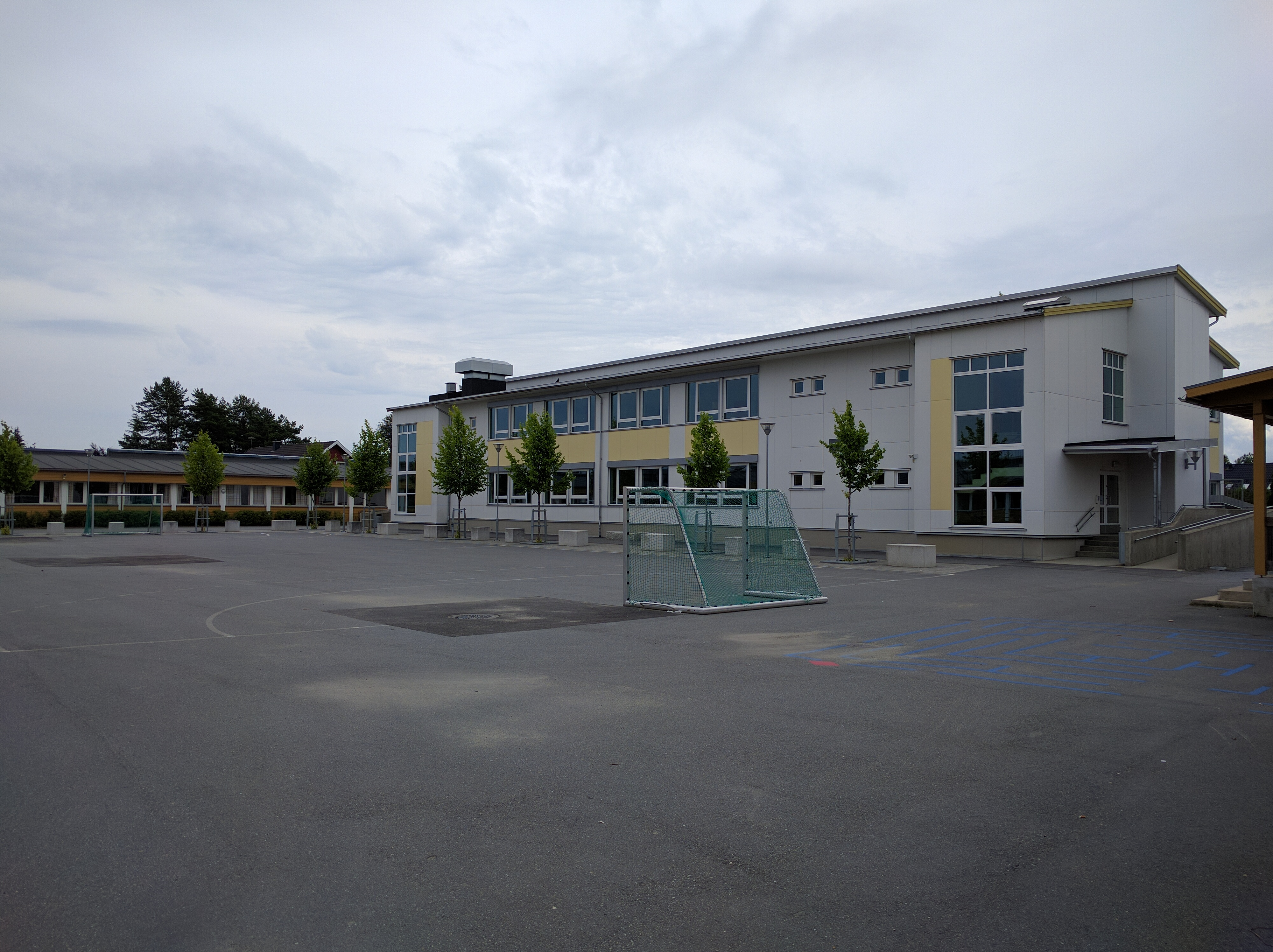 Jessheim school in Jessheim city